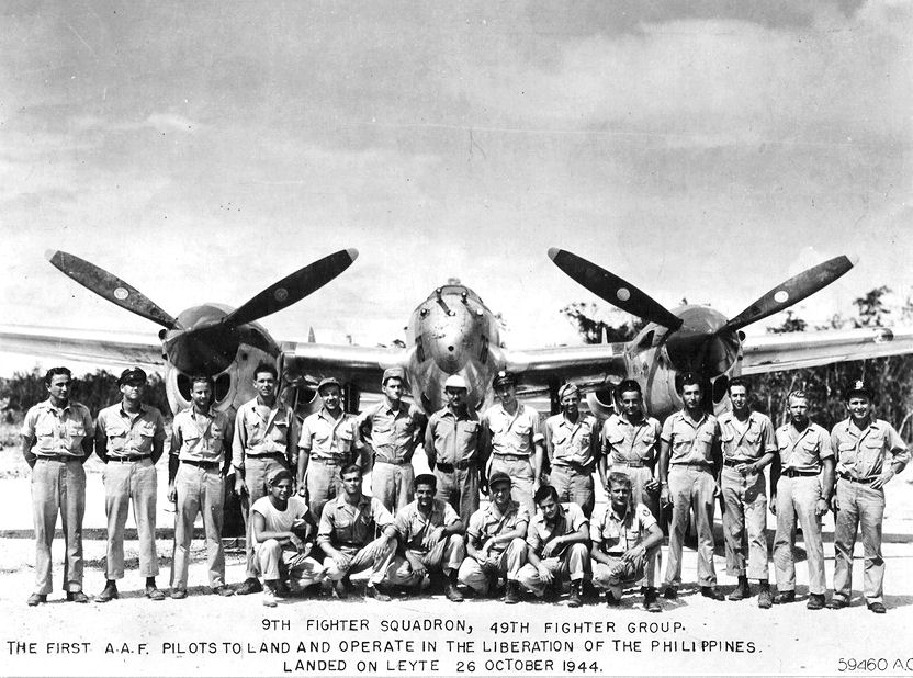 9th Fighter Squadron, 49th Fighter Group. Squadron posing in front of a P-38 Lightning commemorating the first USAAF pilots to land and operate in the Philippines after the landing on Lete, October 1944.